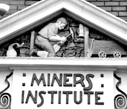 The elaborate carved doorway of the former miners institute building, Moorthorpe.